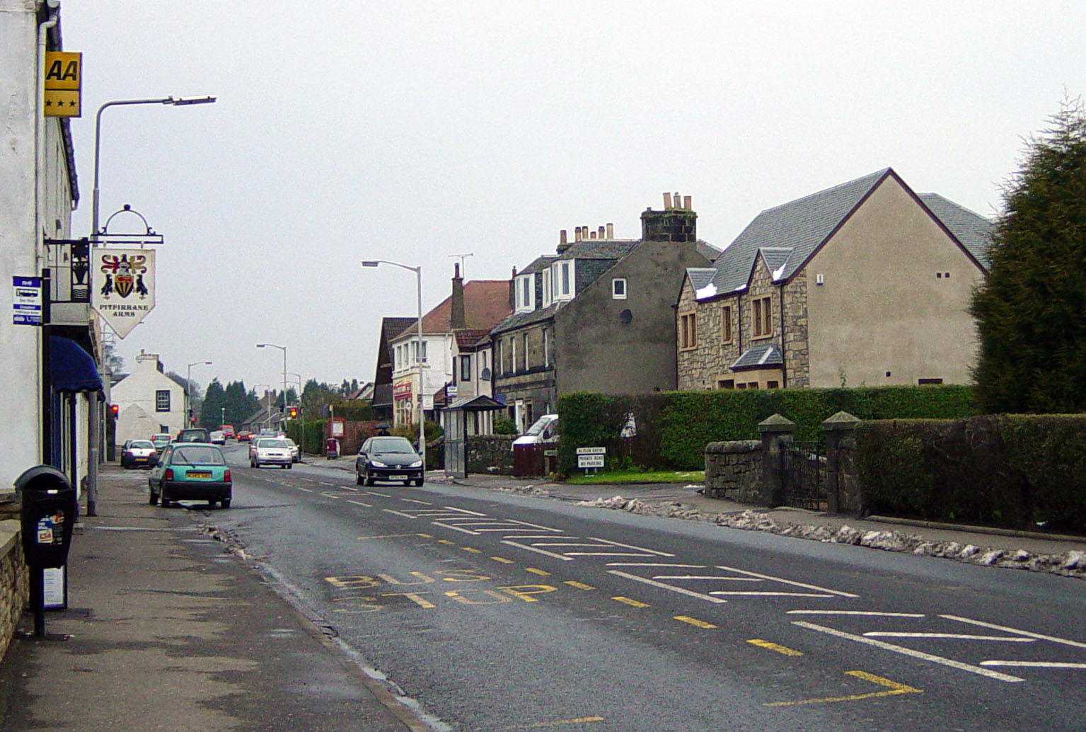 Photograph taken by me in Crossford on a cold morning on 15th March 2006 (snow can be seen on the edge of the road). This photograph is taken looking West towards the traffic lights.